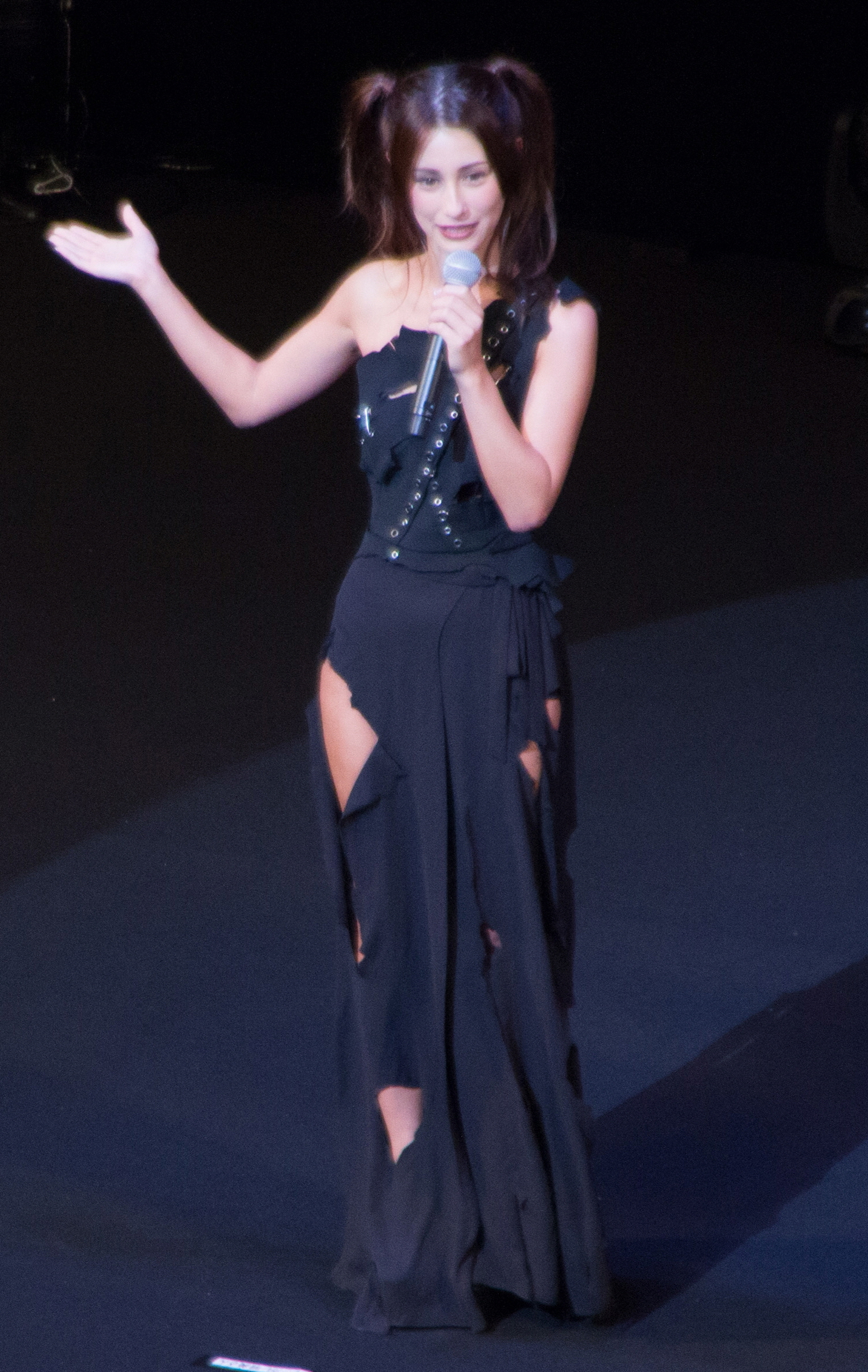 Suicide Squad Japan Premiere- Darenogare Akemi